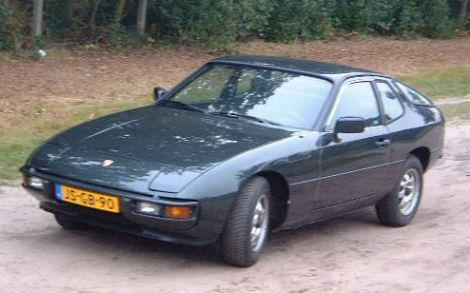 Ewout's Porsche 924